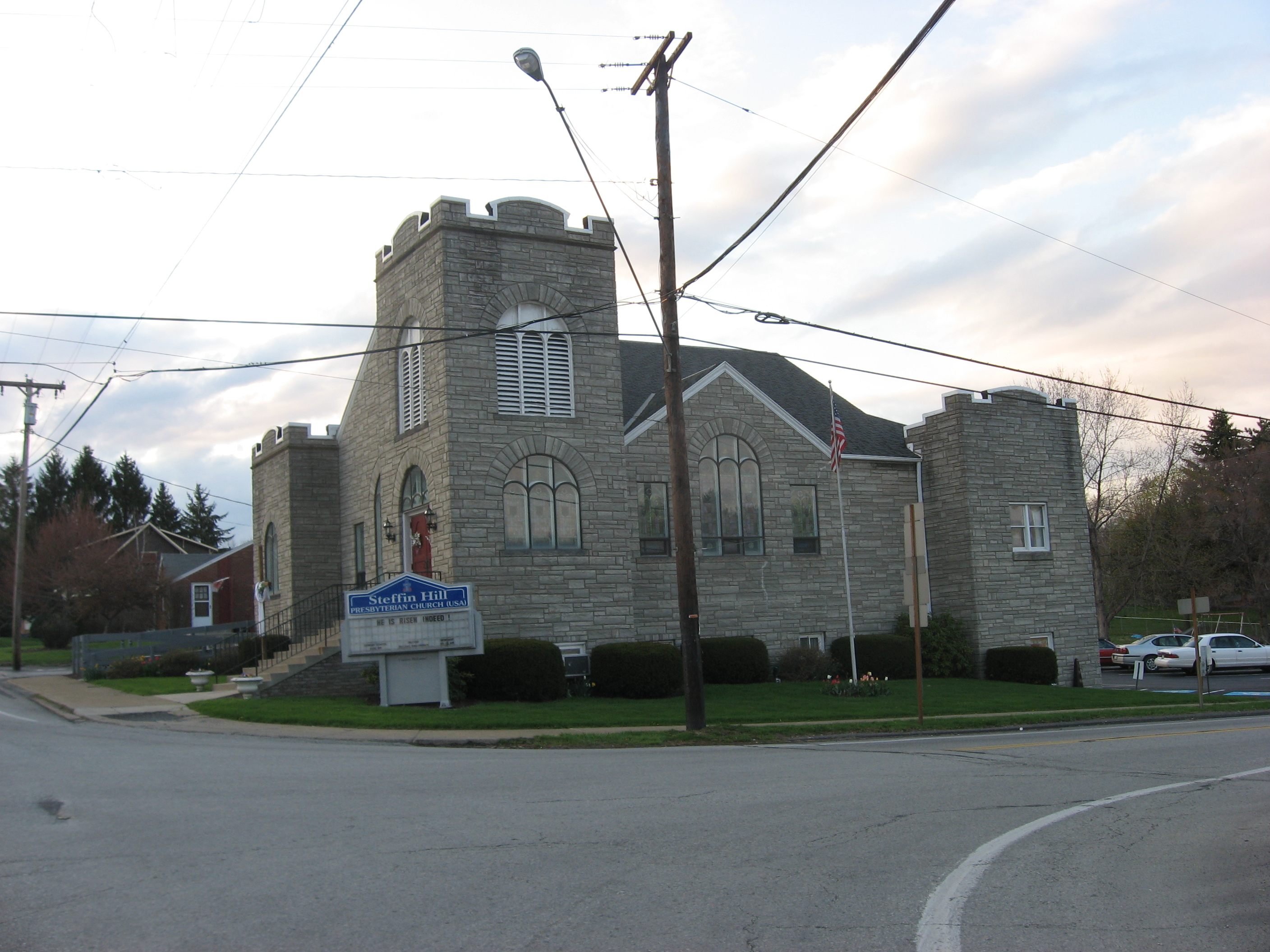 Steffin Hill Presbyterian Church, located at 2000 Darlington Road (Route 588) in White Township, Beaver County, Pennsylvania, United States. Church profile.